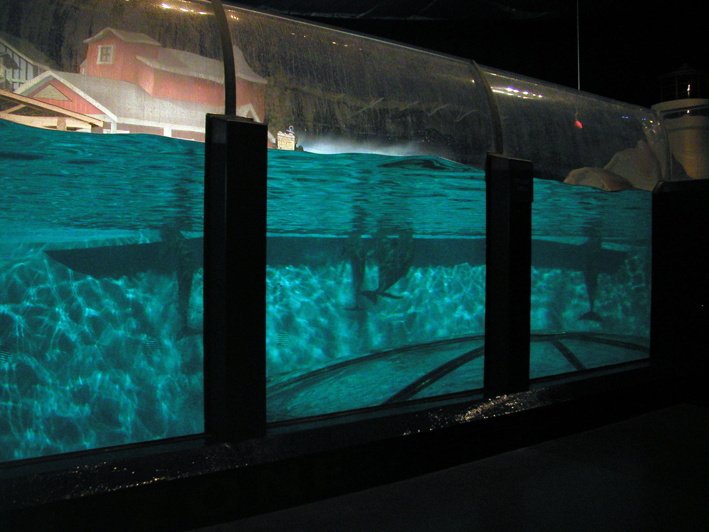 Dolphins at the Dolphin Pavilion at the Indianapolis Zoo. The underwater dome can be seen in this image beneath the dolphins in the background.